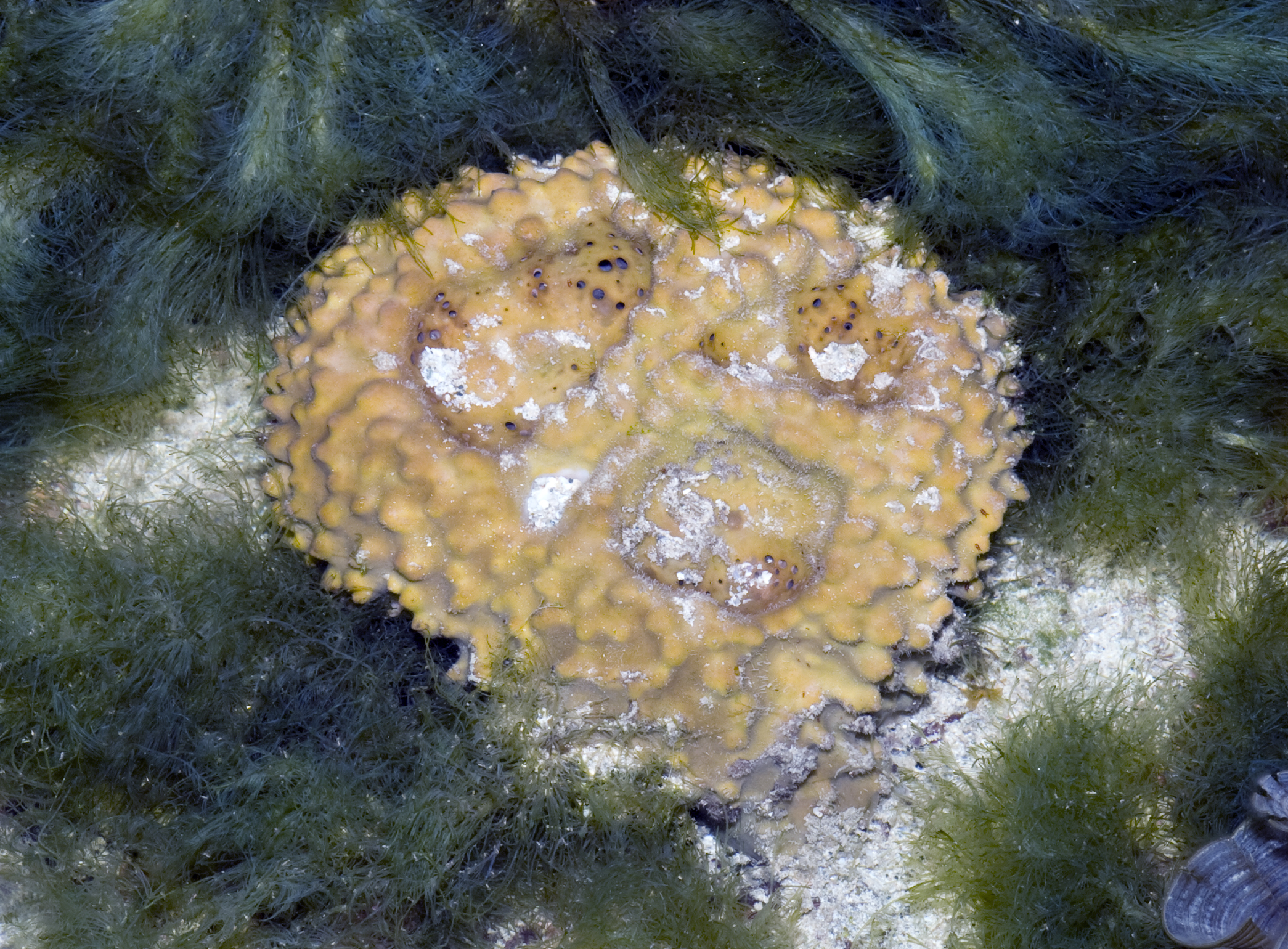 Yellow pot sponge (Rhabdastrella globostellata) on the shores of Singapore More about this sponge on the wildfacts sheets on 300dpi photo free for download as part of the 2010 International Year of Biodiversity. Photo reference: 040423sntd0131